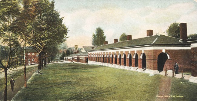 University of Virginia: Postcard of West Range (part of the Academical Village designed by Thomas Jefferson) 1905; near the middle the pediment of "Hotel C", to its left the tower of the University Chapel; at the very left the Anatomical Theatre (also designed by Thomas Jefferson). description at the source: Title: West Range (...) Comments: West Range of Lawn, image from postcard. Image Filename: prints01547